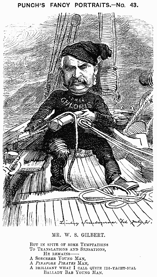 1881 Caricature of W.S. Gilbert: Scanned from Punch, August 6, 1881, page 58. Artwork by Edward Linley Sambourne